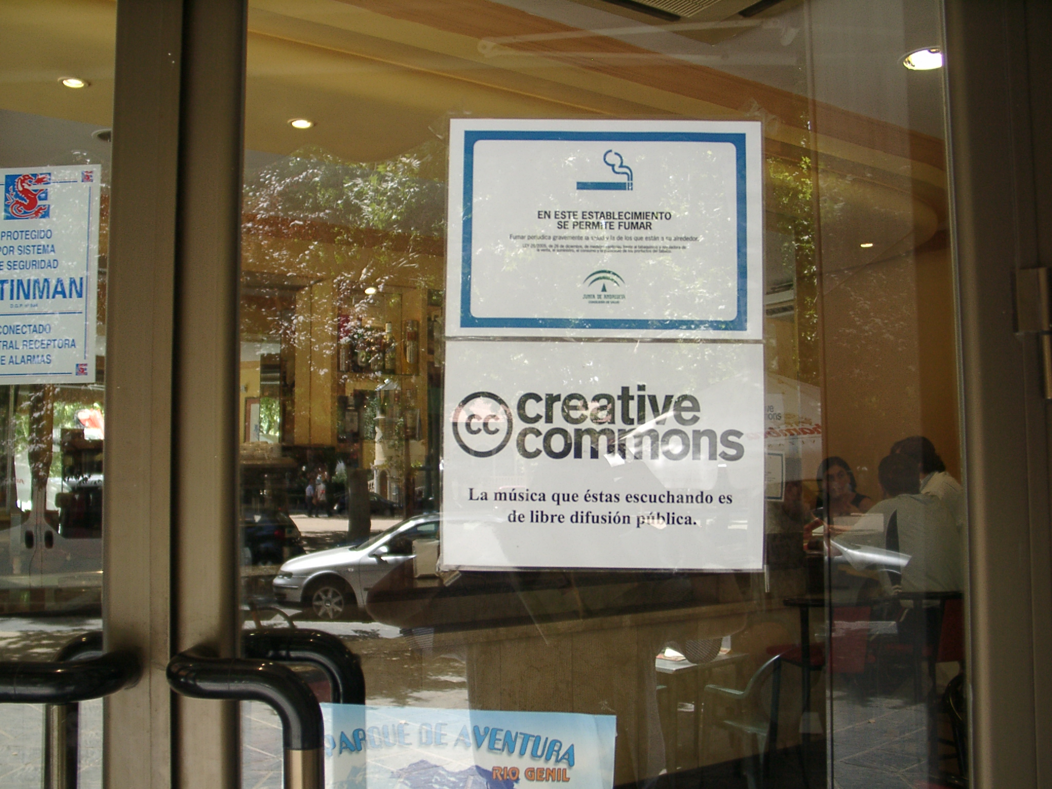 Sign of a Granada restaurant in which only CC-licensed music is played.